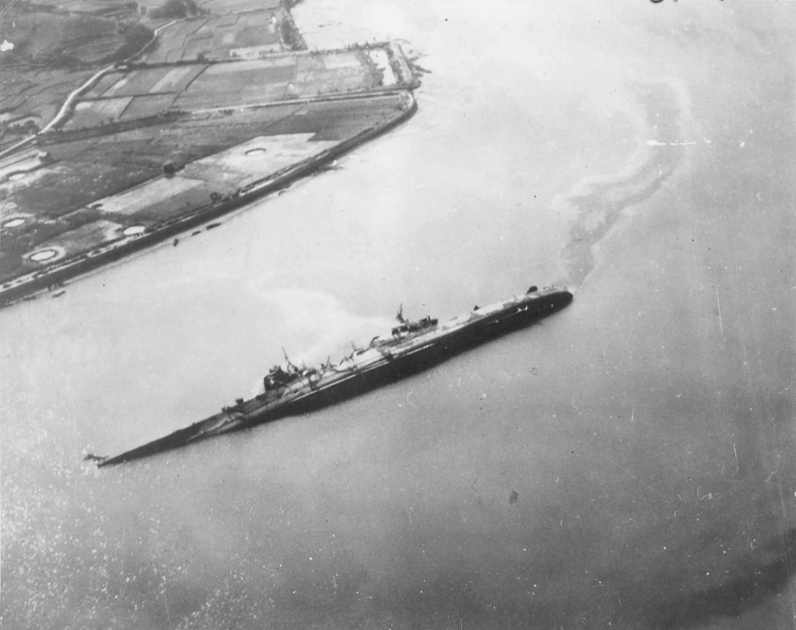 The capsized Japanese light cruiser Ōyodo at Kure, Japan, as viewed from aircraft from the aircraft carrier USS Wasp (CV-18). The Ōyodo capsized on 28 July 1945 after receiving eight bomb hits in four days from U.S. carrier planes.